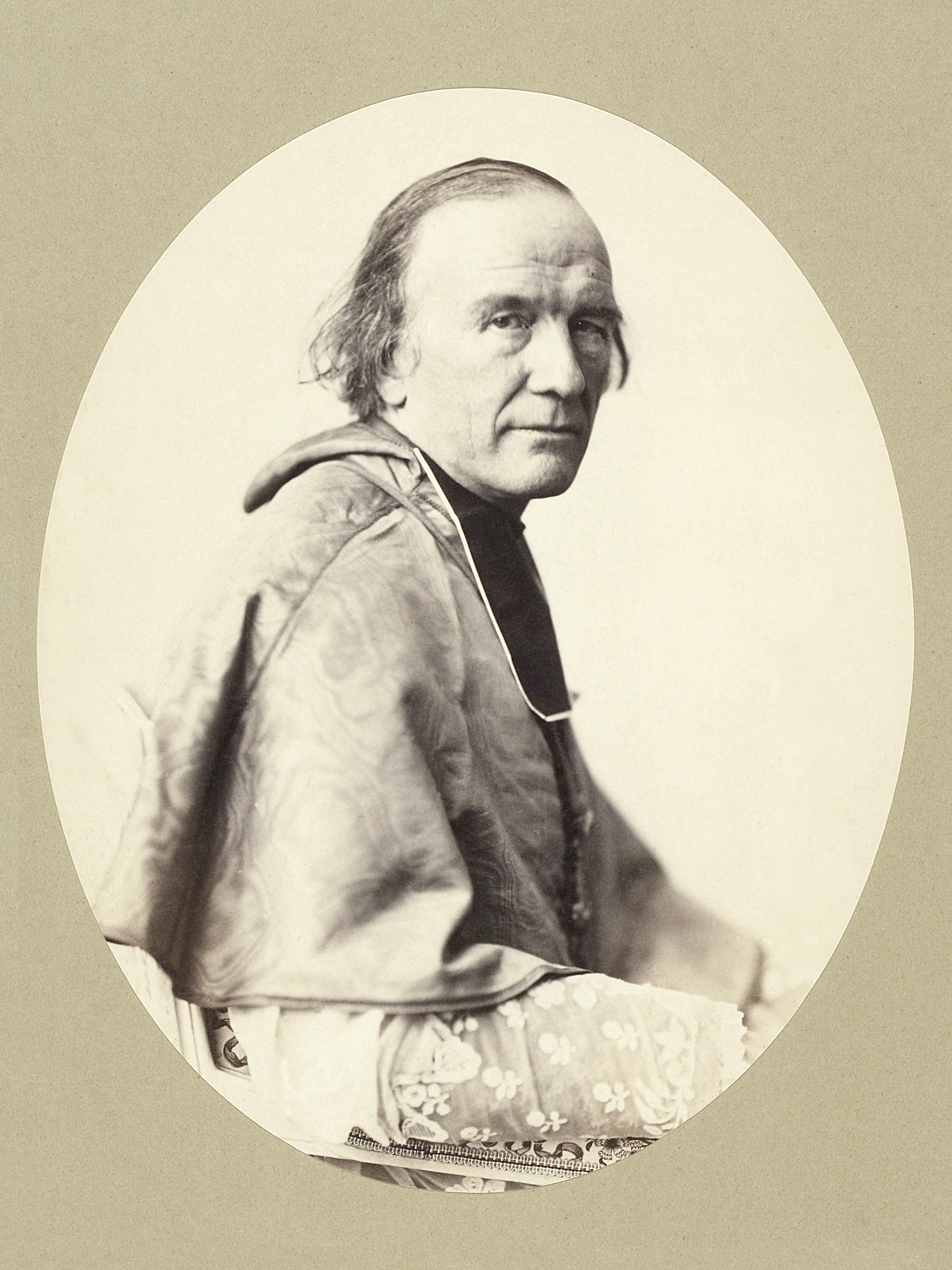 Mgr Georges Darboy (1813-1871), roman catholic archbishop of Paris, ca.1865.